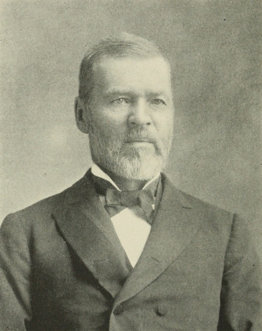 Senator John Henry Gear in an 1899 publication